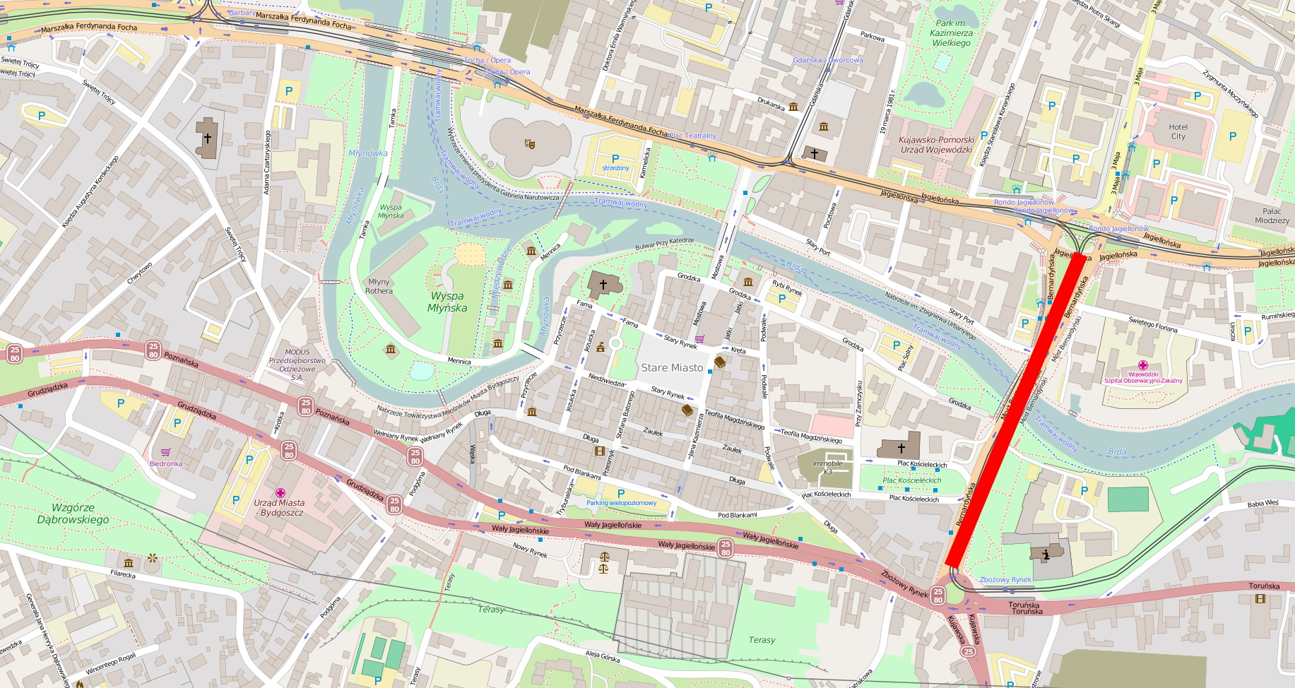 Bernardynska street Bydgoszcz map